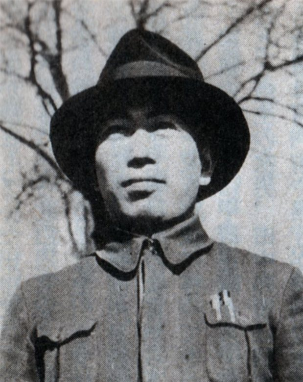 Inomata Jinya is an Imperial Japanese Army Major